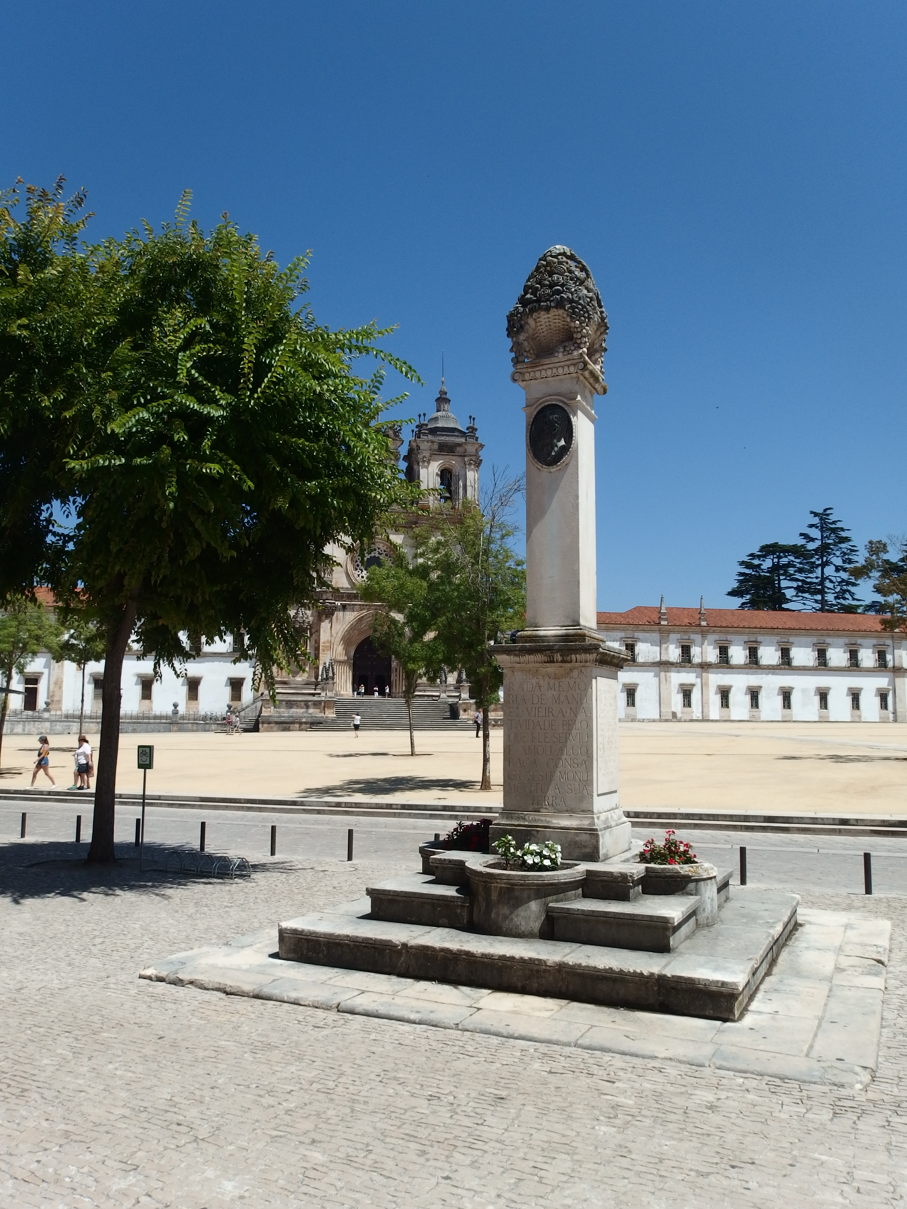 Alcobaça, Portugal.